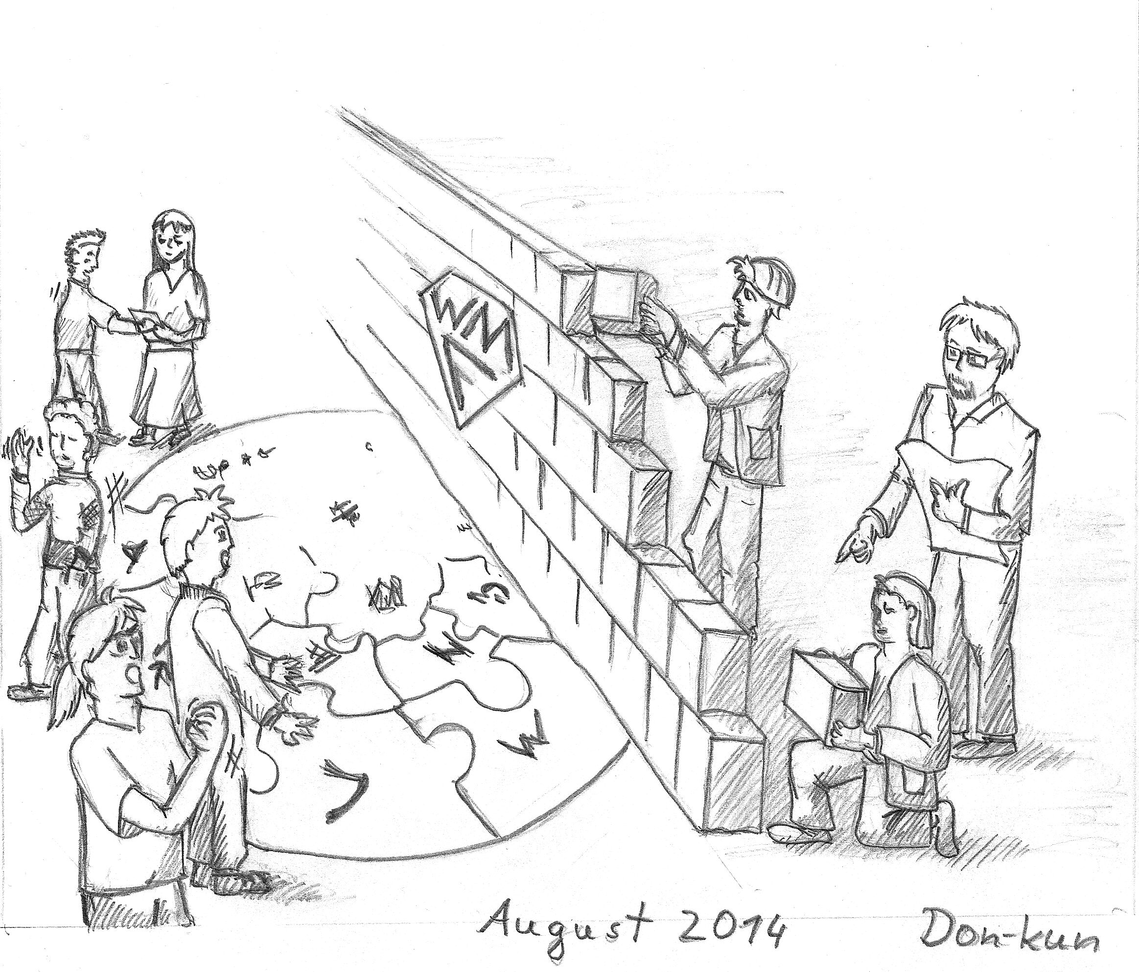 Satirical cartoon describing the controversy after the Wikimedia Foundation introduced a "superprotect" flag on the German Wikipedia in August 2014 to prevent the disabling of a new technical feature, MediaViewer.